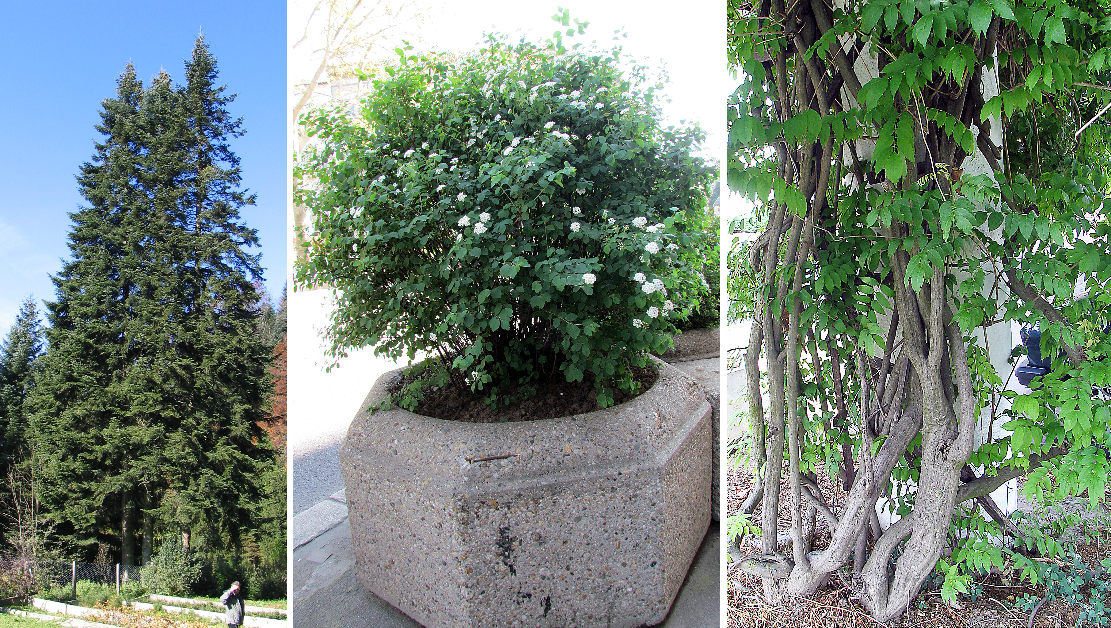 Trees shrubs and woody vines